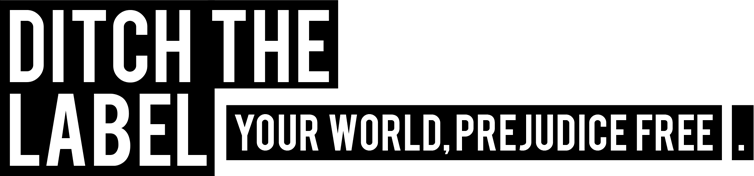 Logo of the UK based non-profit anti-bullying organisation 'Ditch The Label' founded by Liam Hackett. '